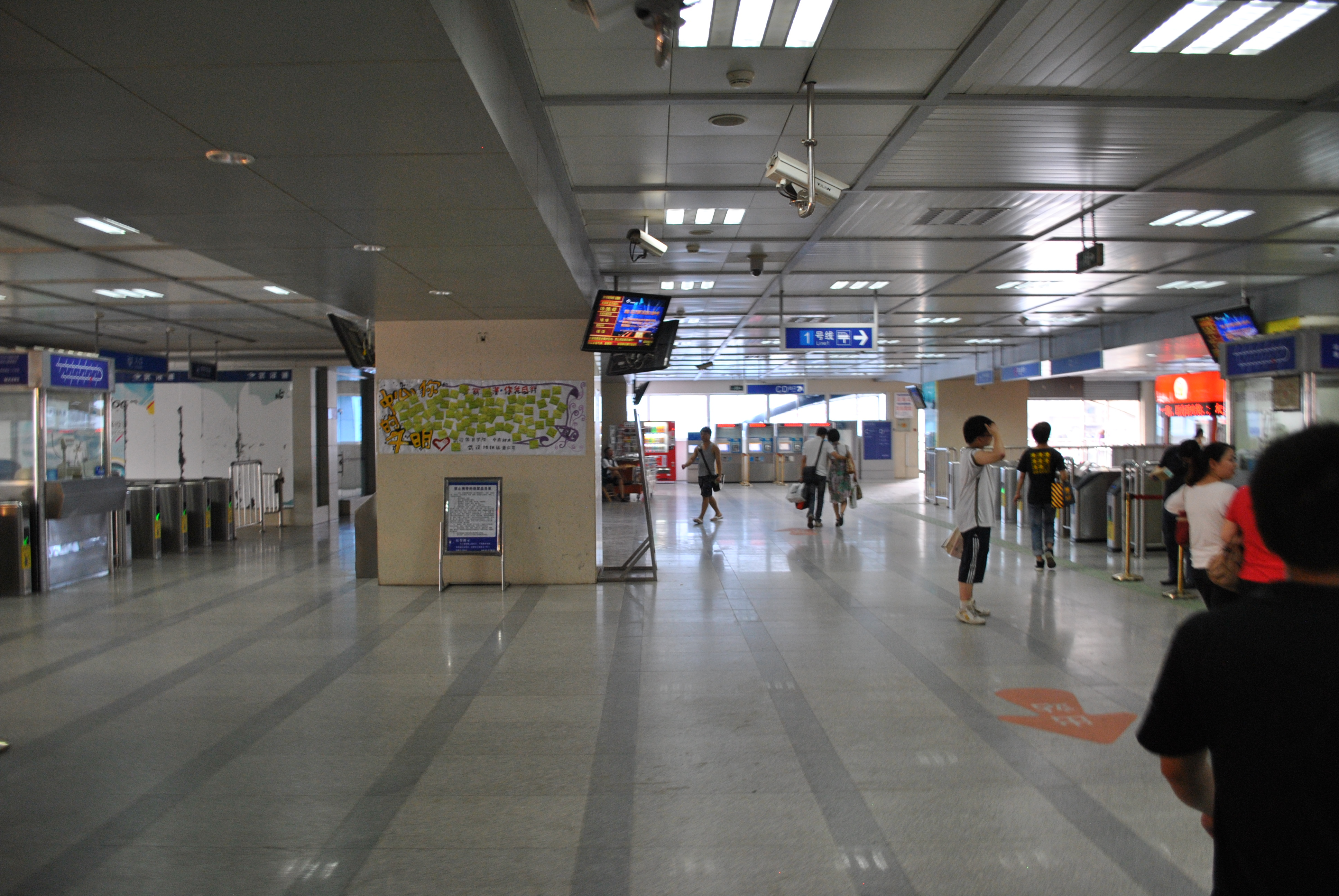 A photo of the hall of Wuhan Metro Line 1 Xunlimen station